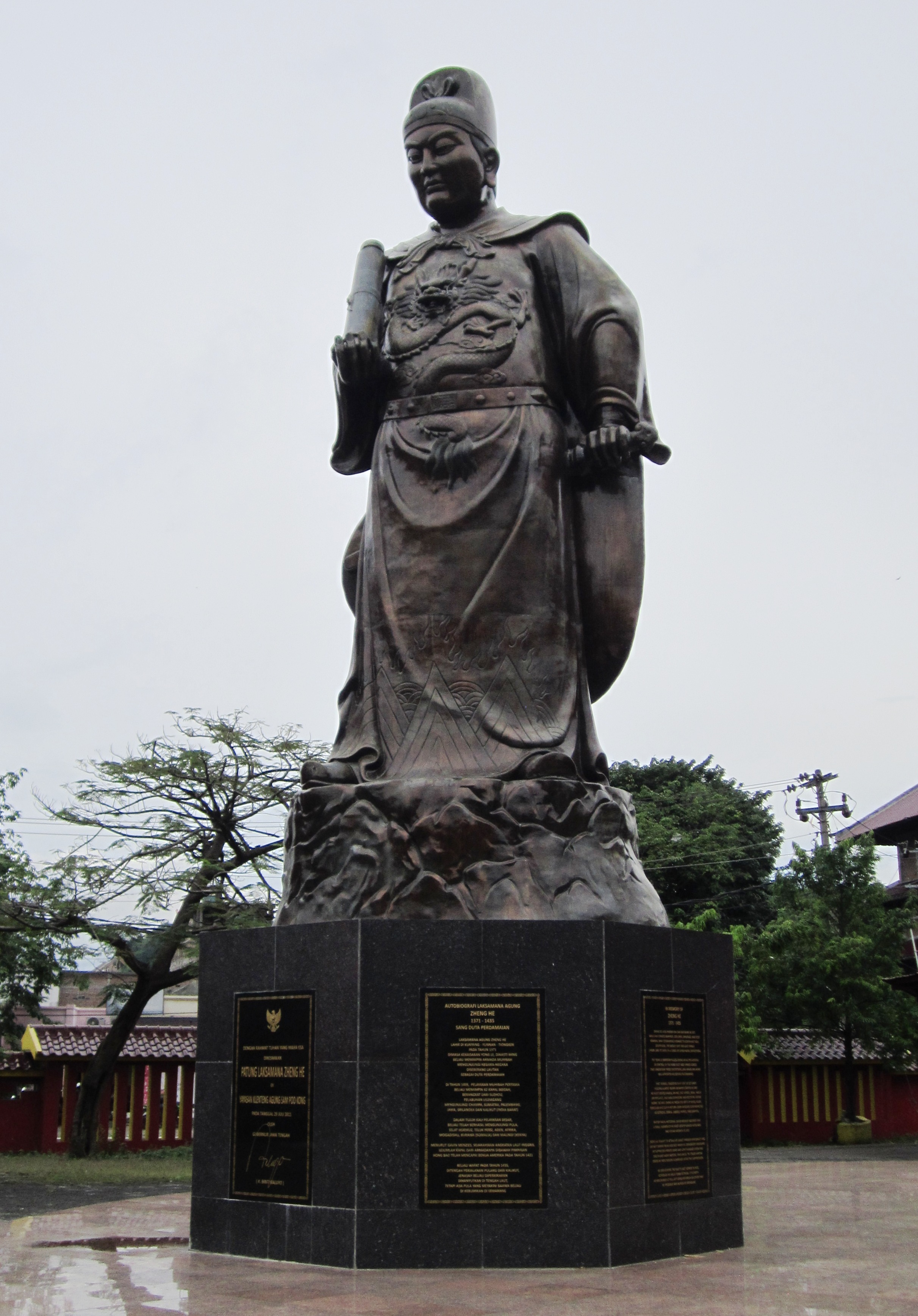 General Zheng He statue in Sam Po Kong temple, Semarang, Indonesia